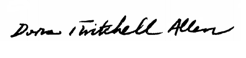 Reproduction of Dr. Doris Allen's signature